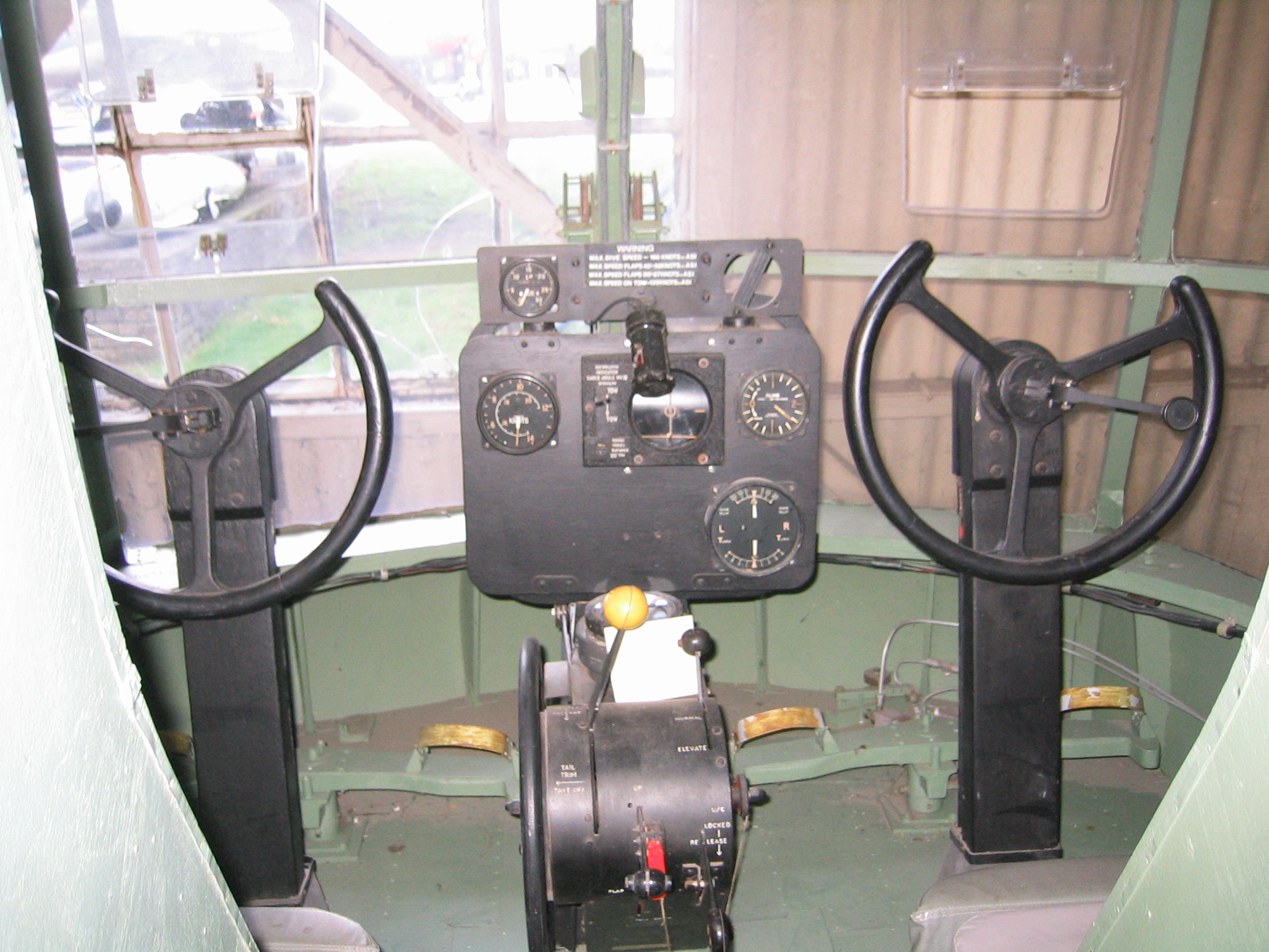 Airspeed Horsa cockpit internal view.